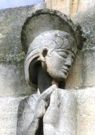 The Statue "Piety" by Dennis Huntley at Guildford Cathedral